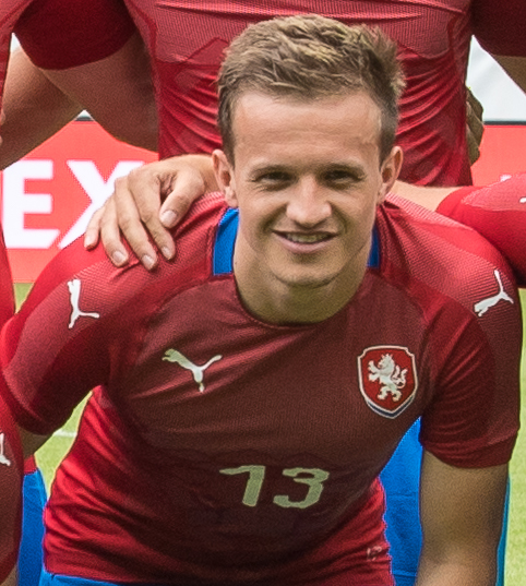 1/6/18St. Poelten, Austria, sports, football, International friendly - Australia vs Czech Republic. Image shows the team of Czech Republic.